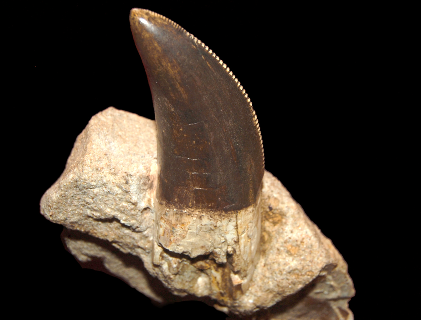 Carcharodontosaurus tooth, kept at the Naturhistorisches Museum Vienna.